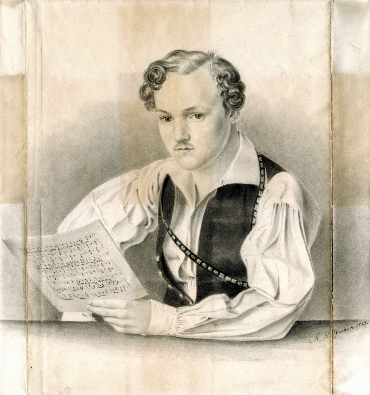 supposed Portrait of Georg Büchner, dated 1833